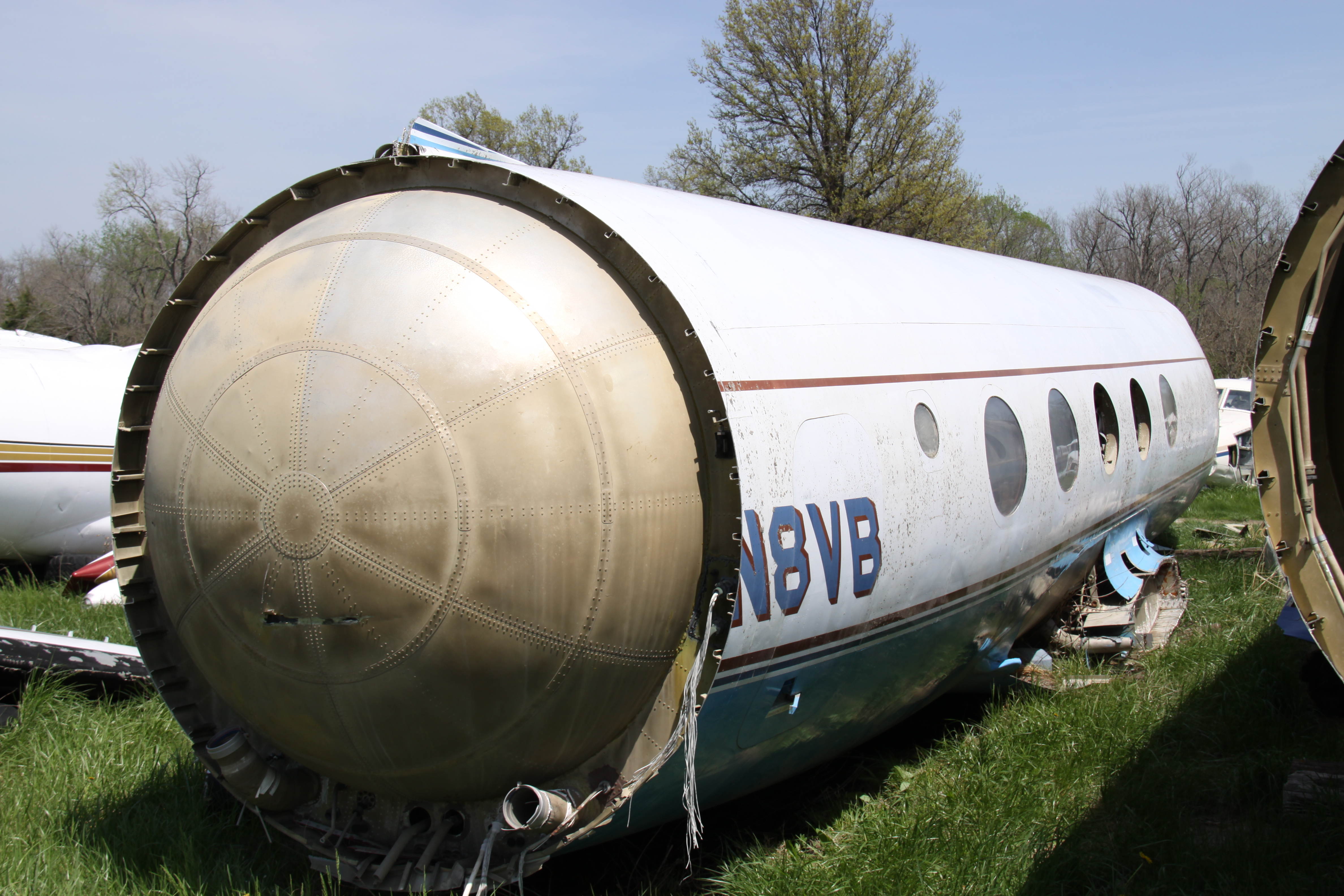 At Rantoul, KS